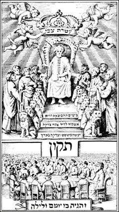 "Shabbatai Tzvi enthroned". Image from the Amsterdam Jewish publication Tikkun, depicts Shabbatai Tzvi crowned as the messiah. Amsterdam, 1666. Published in the 1901-1906 Jewish Encyclopedia, now in the public domain.[1]